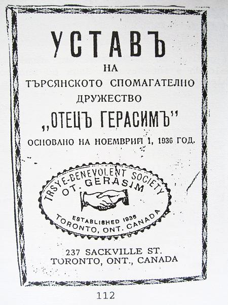 Tursie Benevolent Society"Otets Gerasim", Toronto, Bylaws 1936